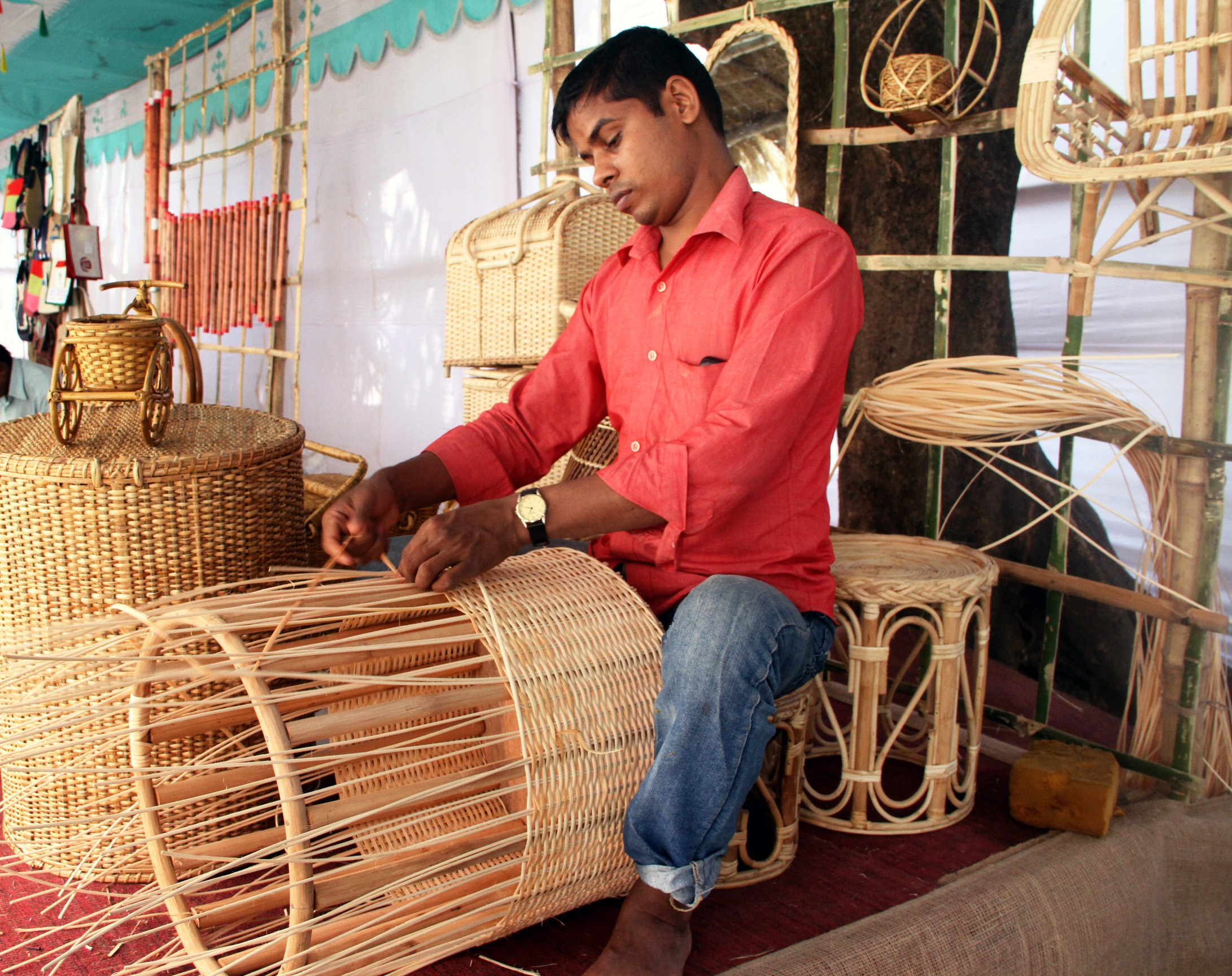 A cane-craftsman making a basket of cane, Bangladesh, 2015.